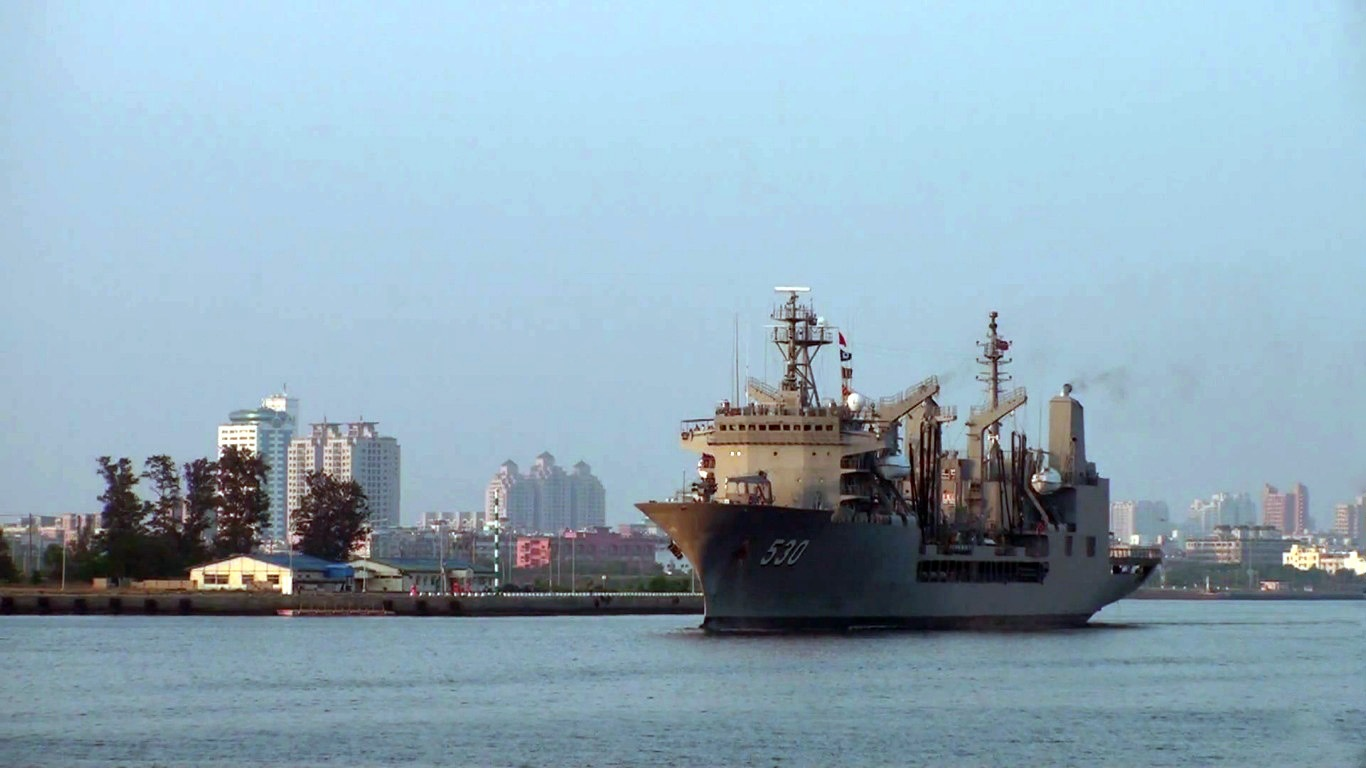 ROC Navy Wu Yi (AOE-530) at Anping Port.